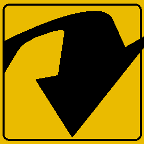 Own Work